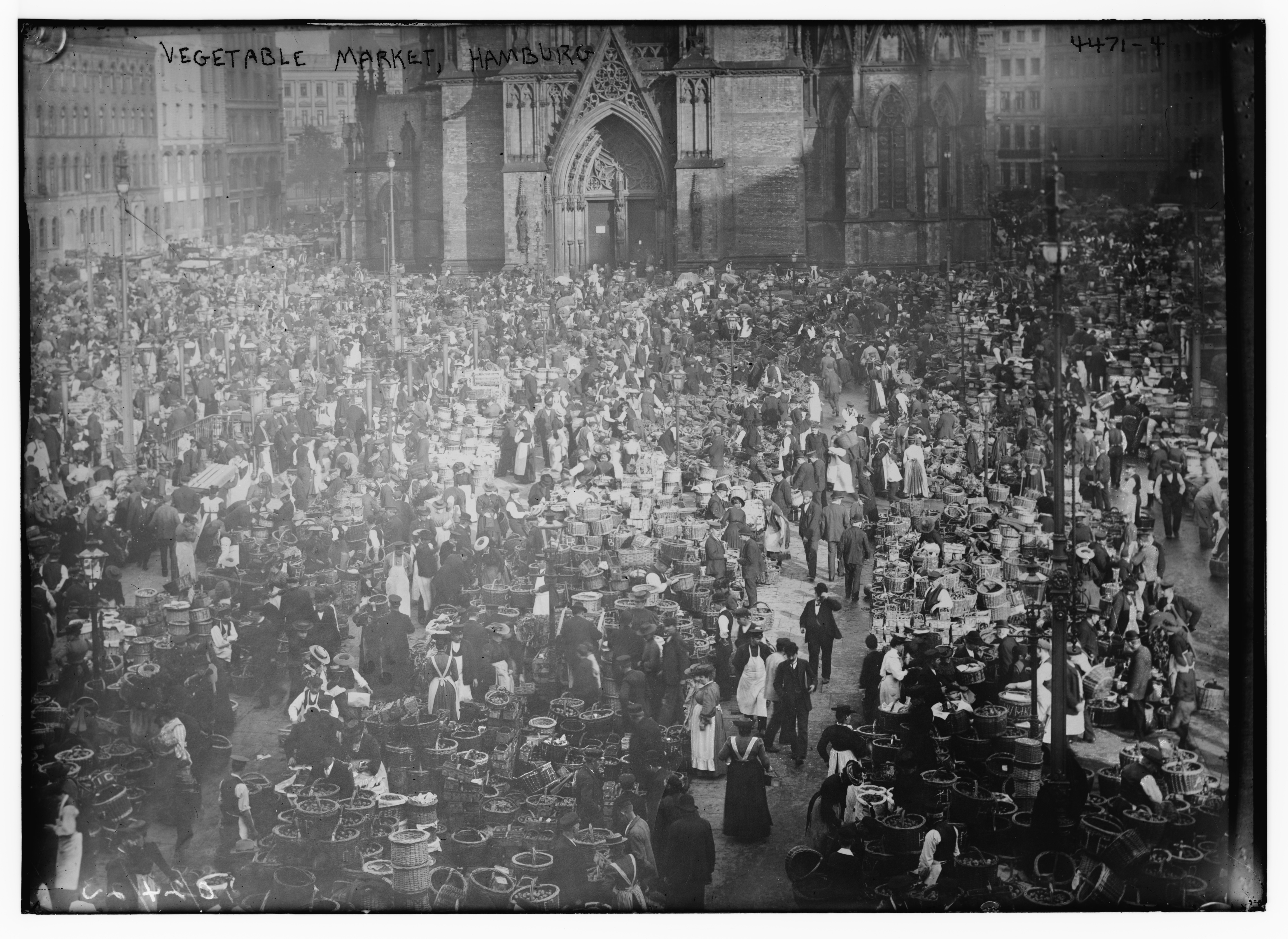 Vegetable market on Hamburg's Hopfenmarkt, ca. 1900